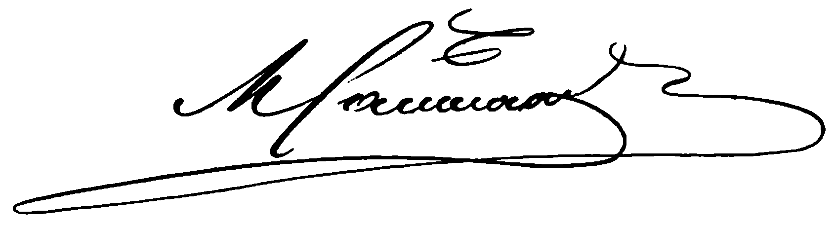 Signature of Mikhail Saltykov-Shchedrin